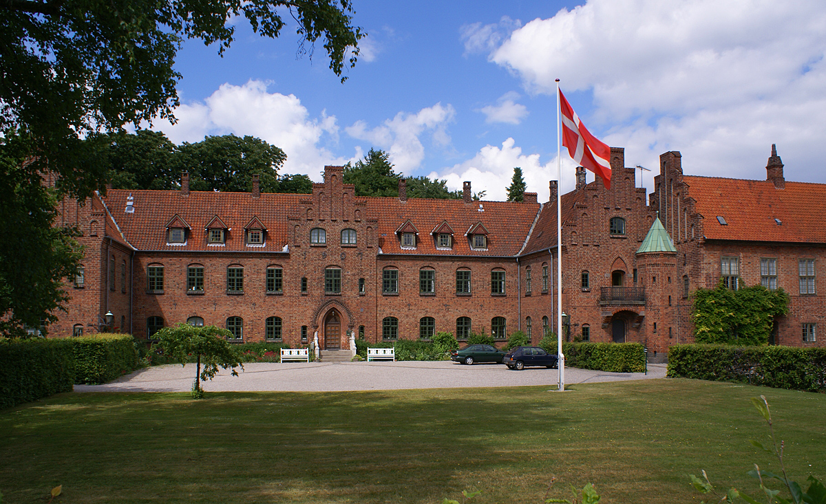 Roskilde Monastery, Roskilde, Denmark